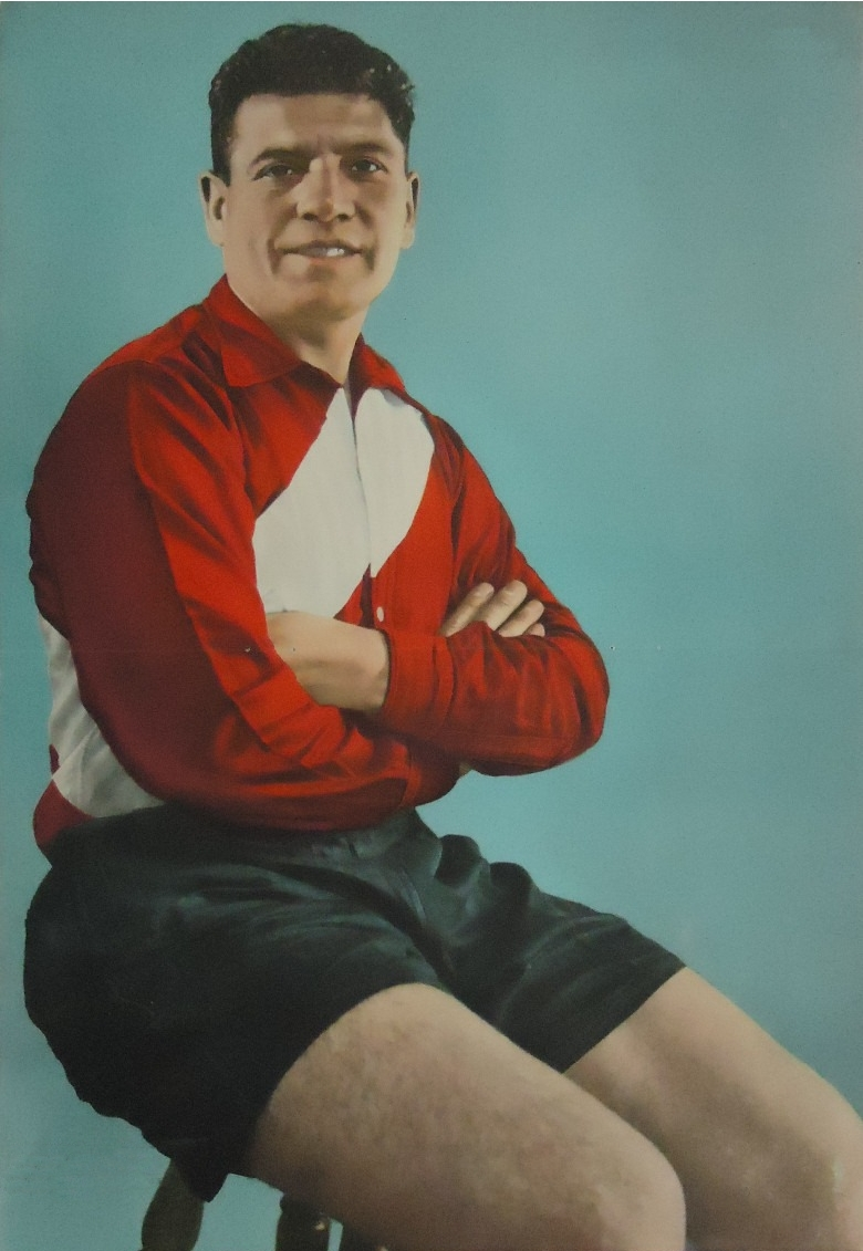 Ramon Muttis en Argentinos Juniors.